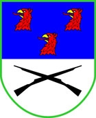 Internal coat of arms of the Bundeswehr (Armed Forces of the Federal Republic of Germany). → Remarks on naming and categorization scheme Current coat of arms of the 411th Mechanized Infantry Battalion (German) Kategorie:Wappen